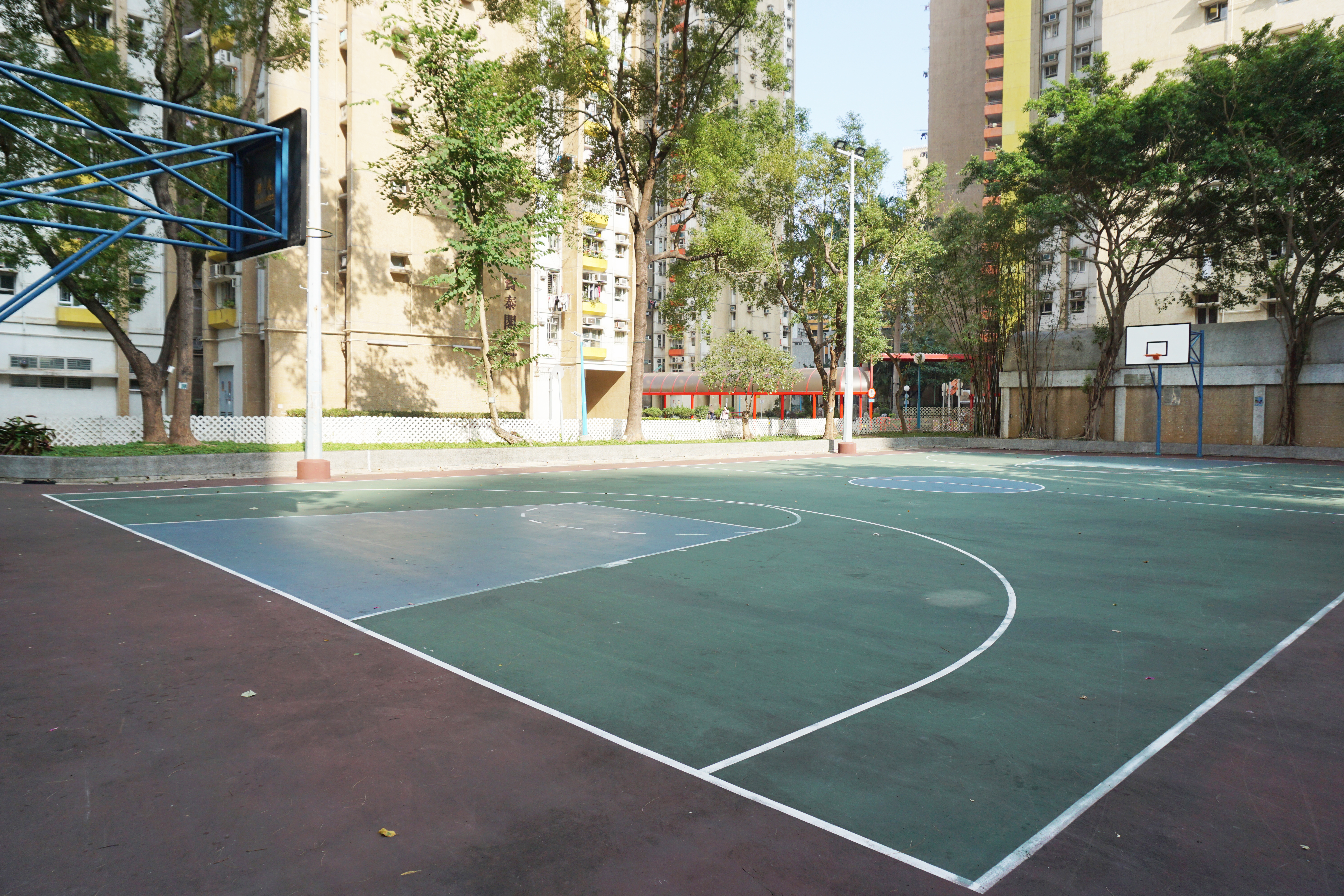 Ching Tai Court in Tsing Yi, Hong Kong.